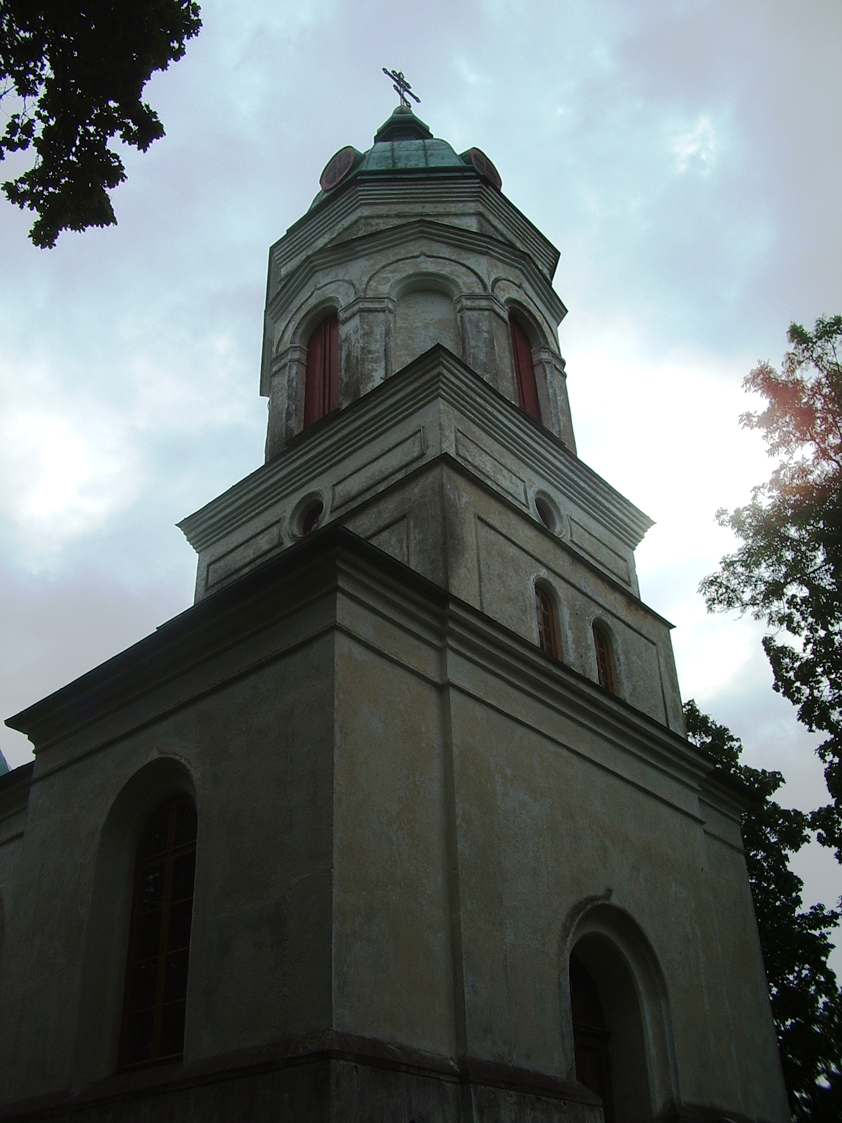 Kahtla church in Laimjala parish